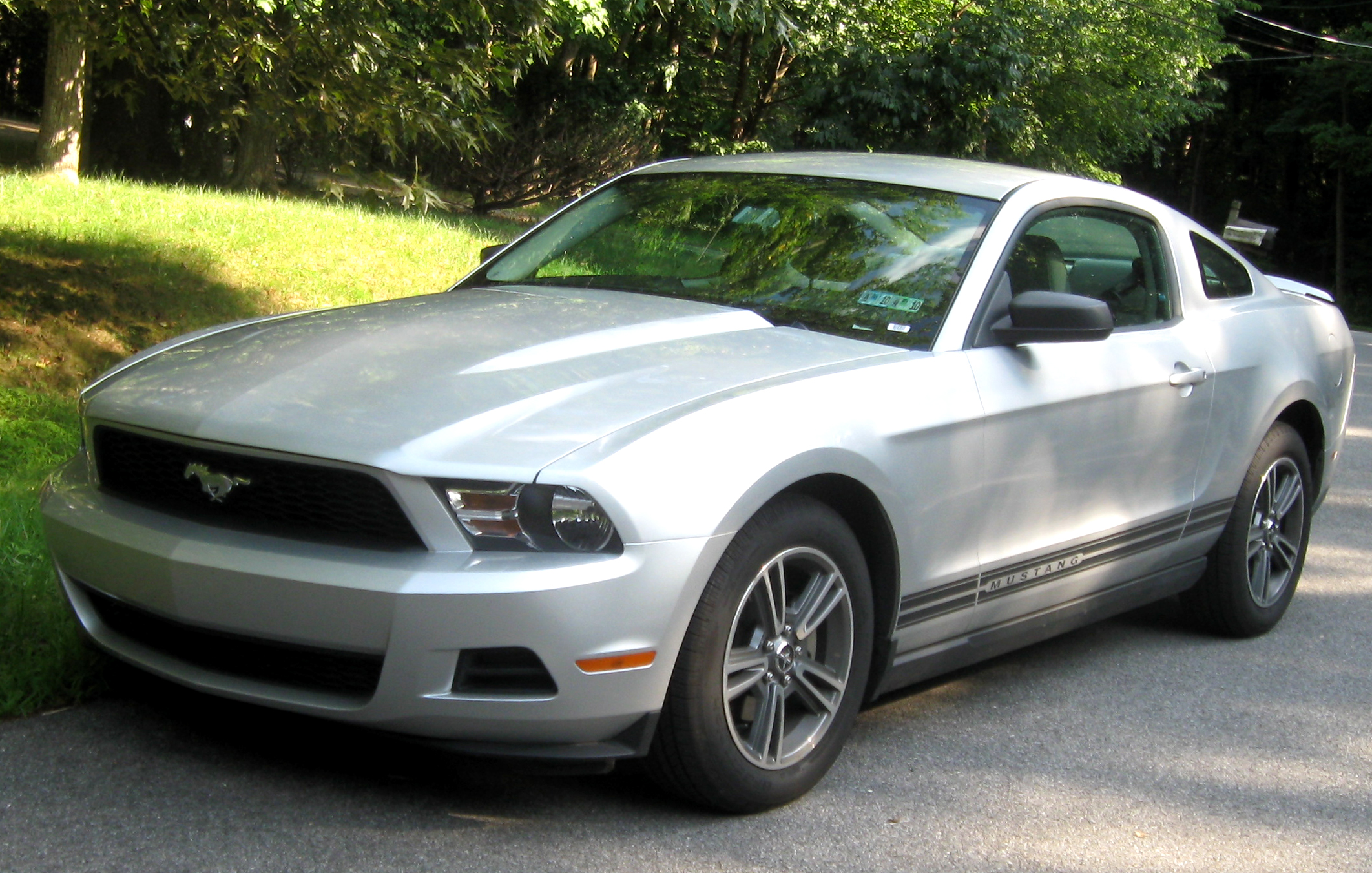 2010 Ford Mustang photographed in Fort Washington, Maryland, USA.